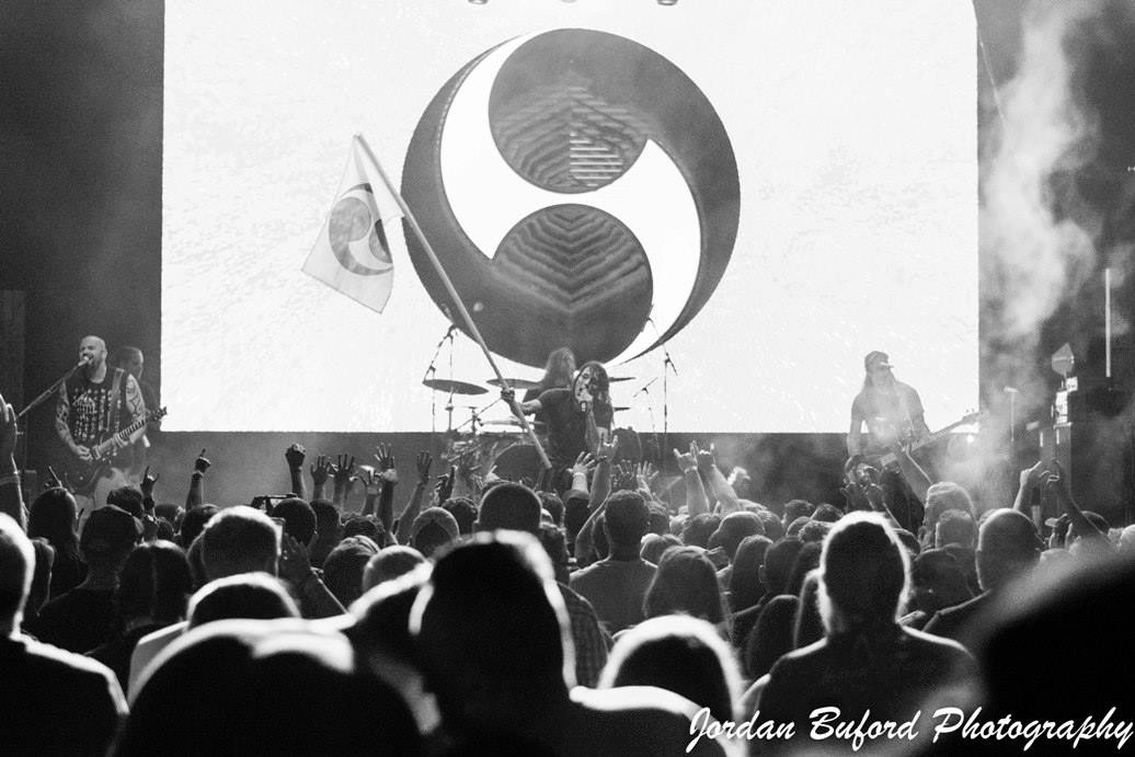 The band Jibe on stage at Gas Monkey Live in Dallas, Texas September 25, 2015.